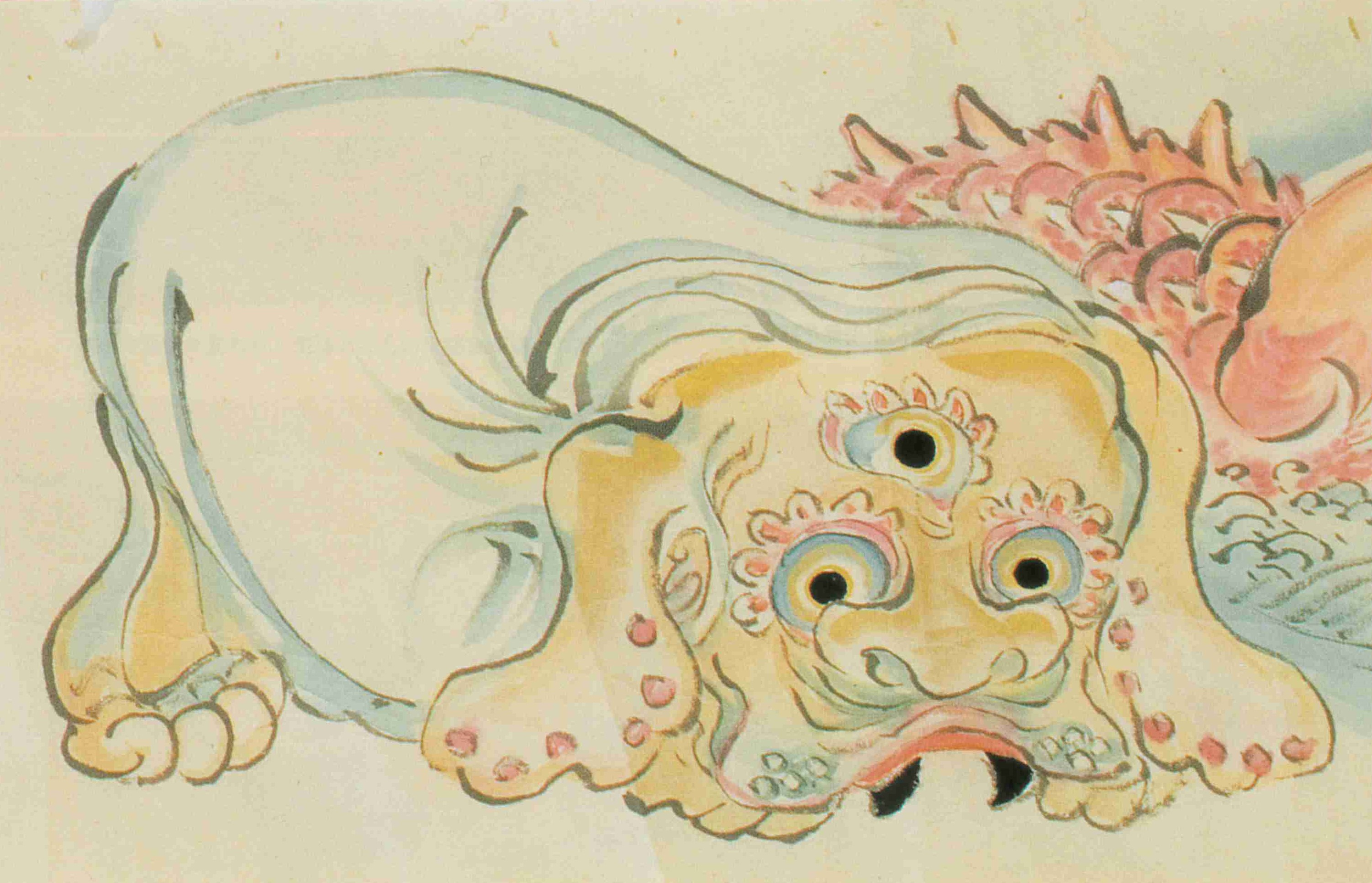 Scanned from ISBN 9784048839921, p. 18. From a scroll painted in 1802 by Kanō Tōrin Yoshinobu in the collection of Yumoto Kōichi.